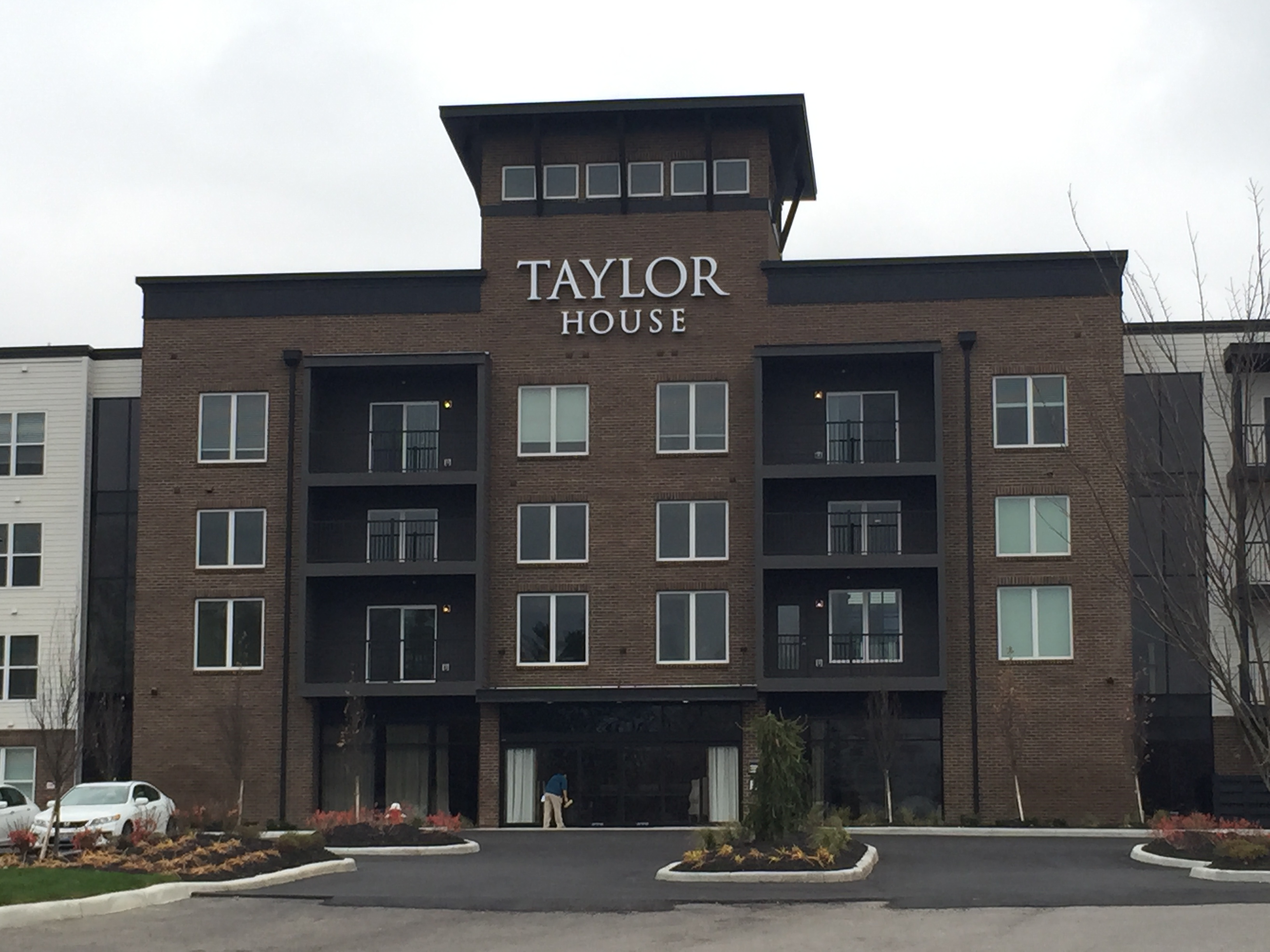 Taylor House Bethel Rd